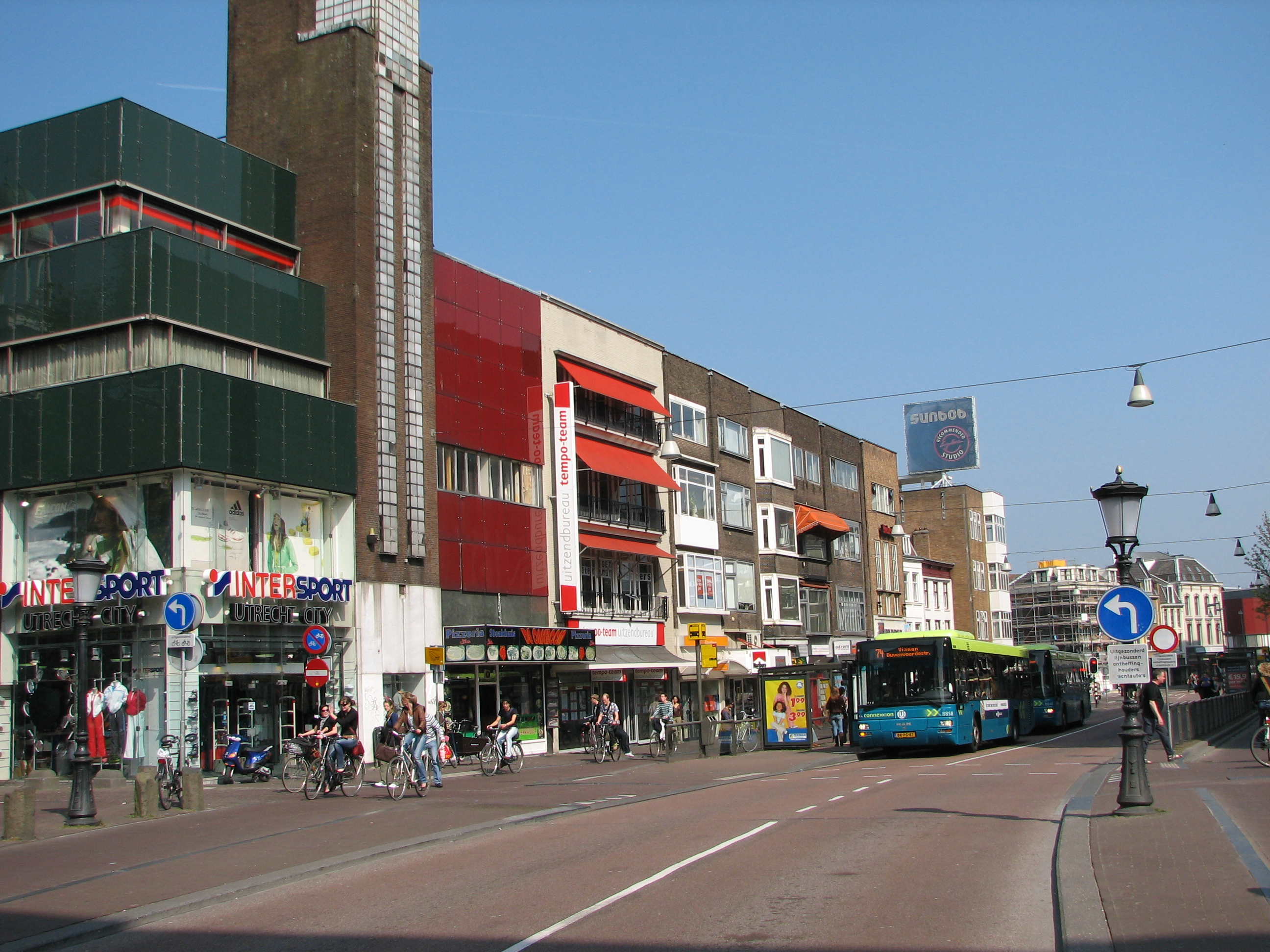 Utrecht, Viebrug